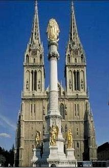 Zagreb Cathedral